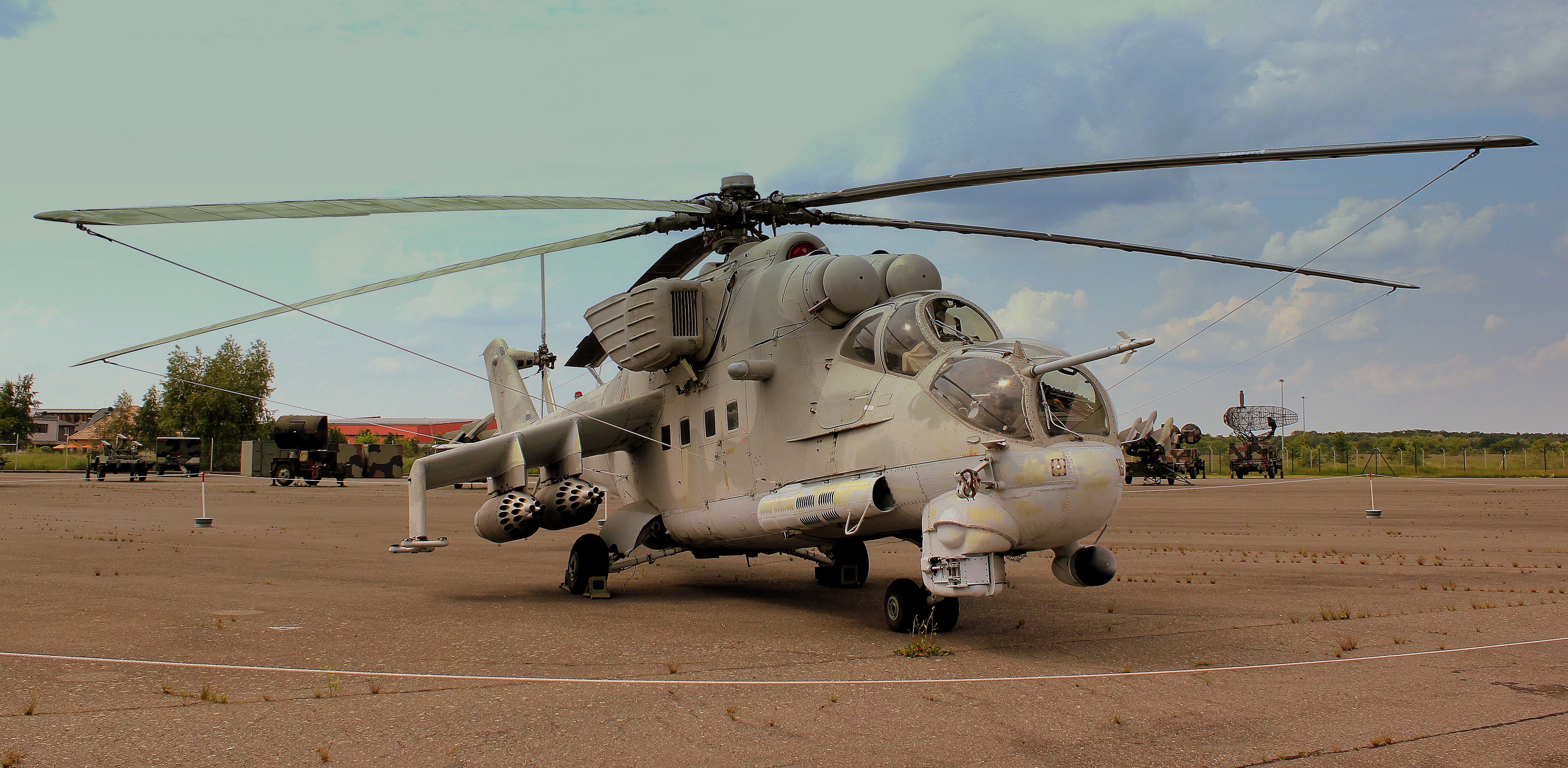 MIL24 HIND HELICOPTER GUNSHIP AT THE LUFTWAFFEN MUSEUM RAF GATOW BERLIN GERMANY JUNE 2013